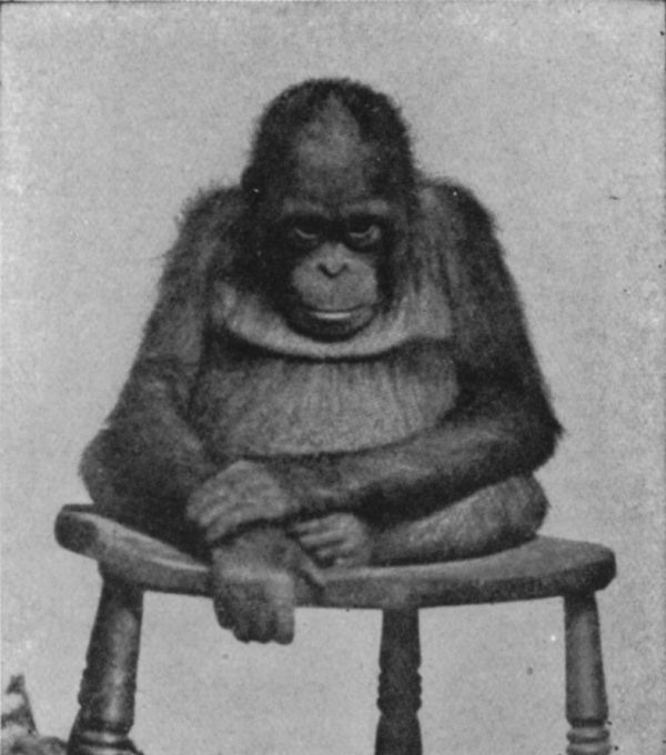 Early photograph of an orangutan youth